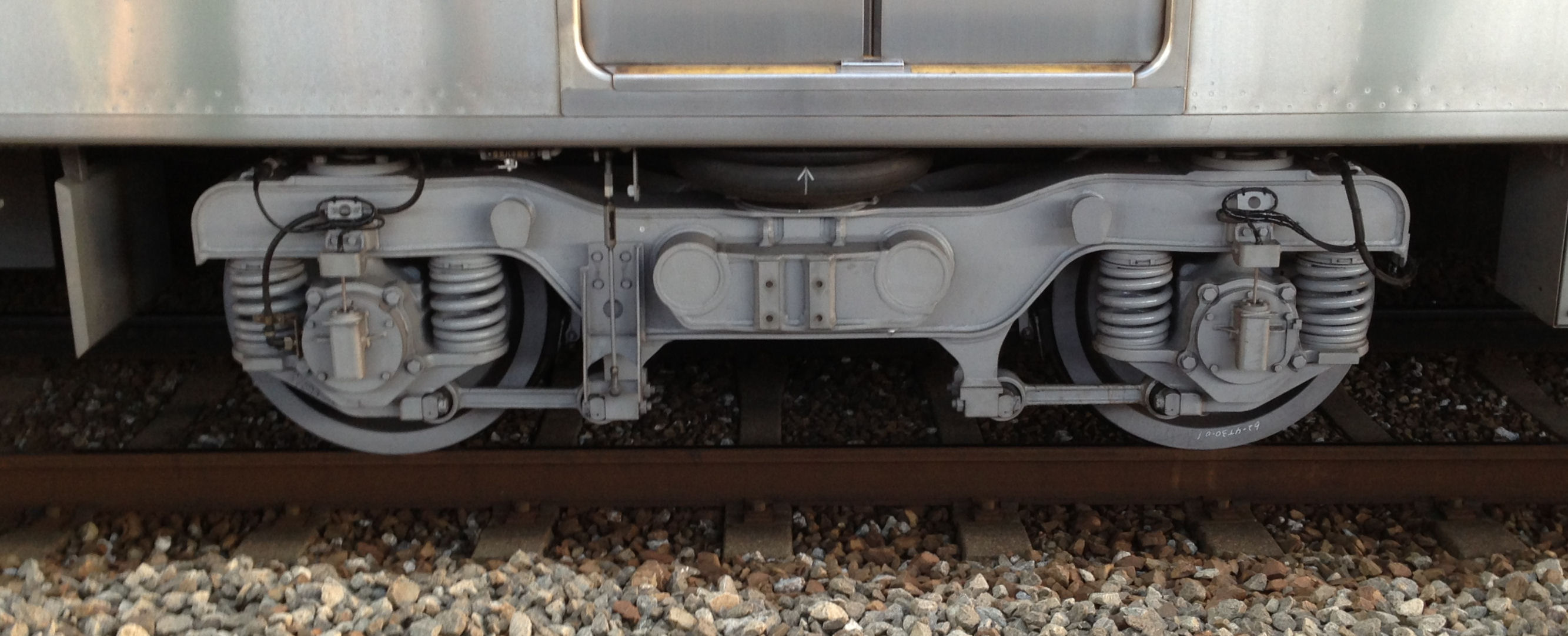 SS180 PQ monitoring bogie truck by nssmc on Keio 9680